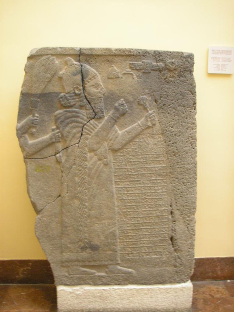 Ortohstat with inscription. King Barrekub praying in front of divine symbols. The inscription is about the construction of a palace.Late Hittite period (Aramaean). 8th century BCE. Sam'al (Sinjerli). Basalt, Inv. No. 7697.